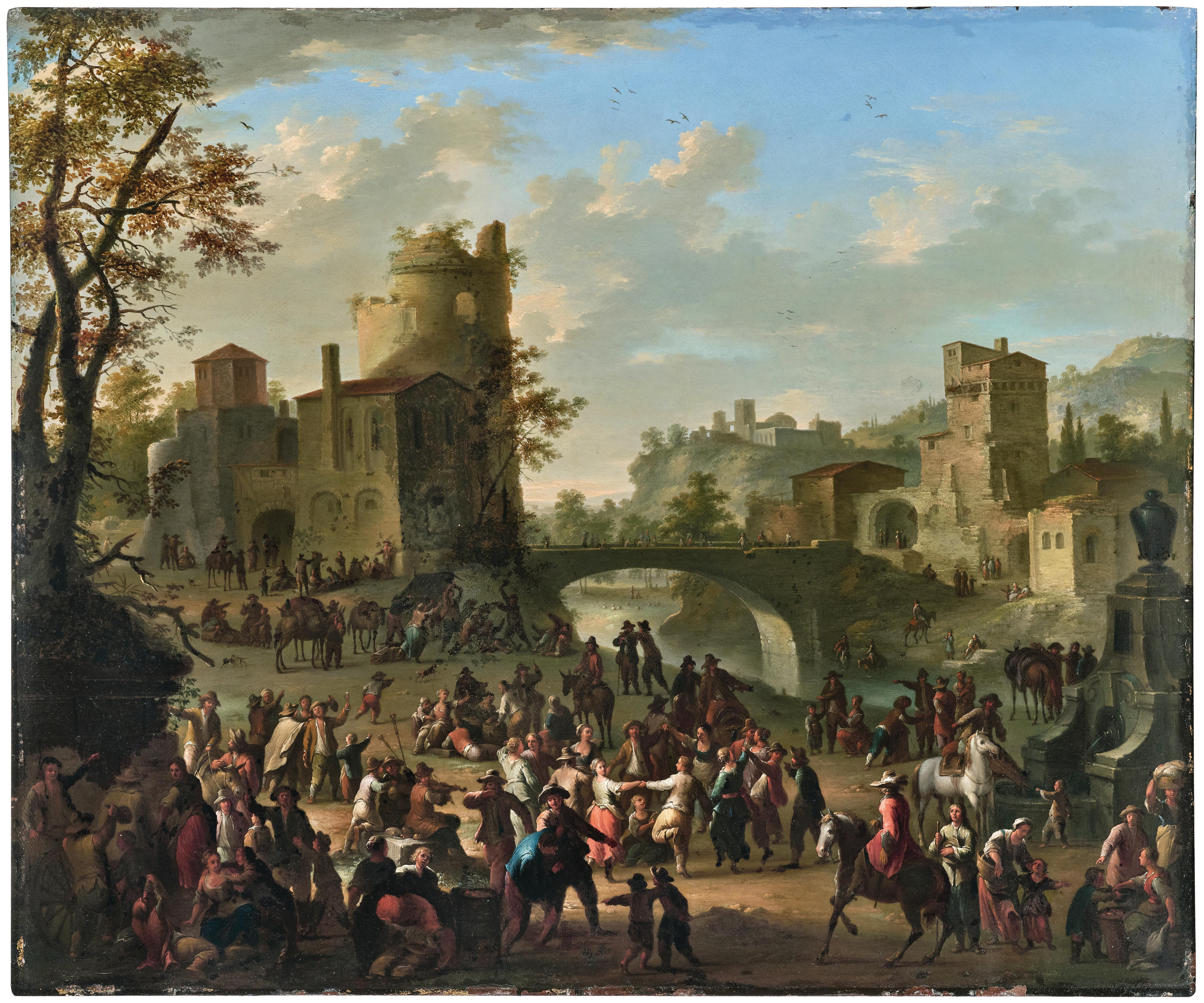 A village dance